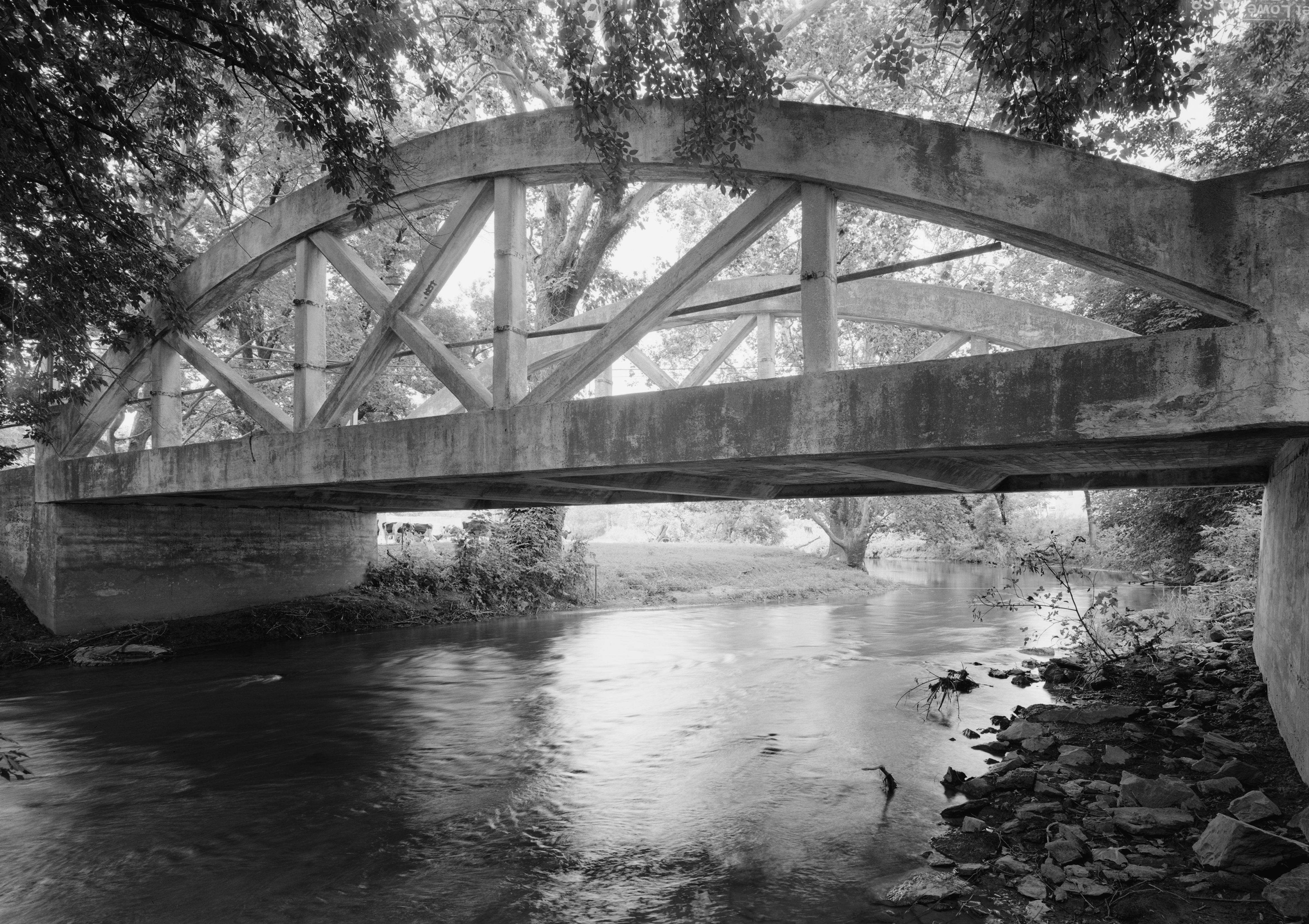 Exterior perspective of east arch